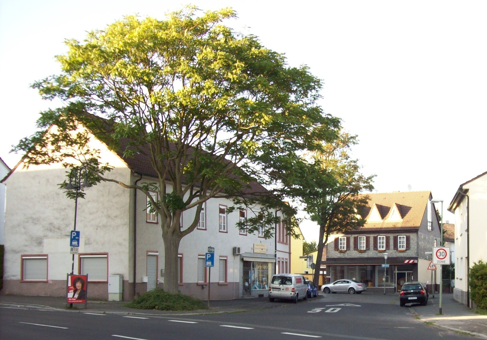 place of the "thing" (assembly) of the historic Biebermark, located in Bieber